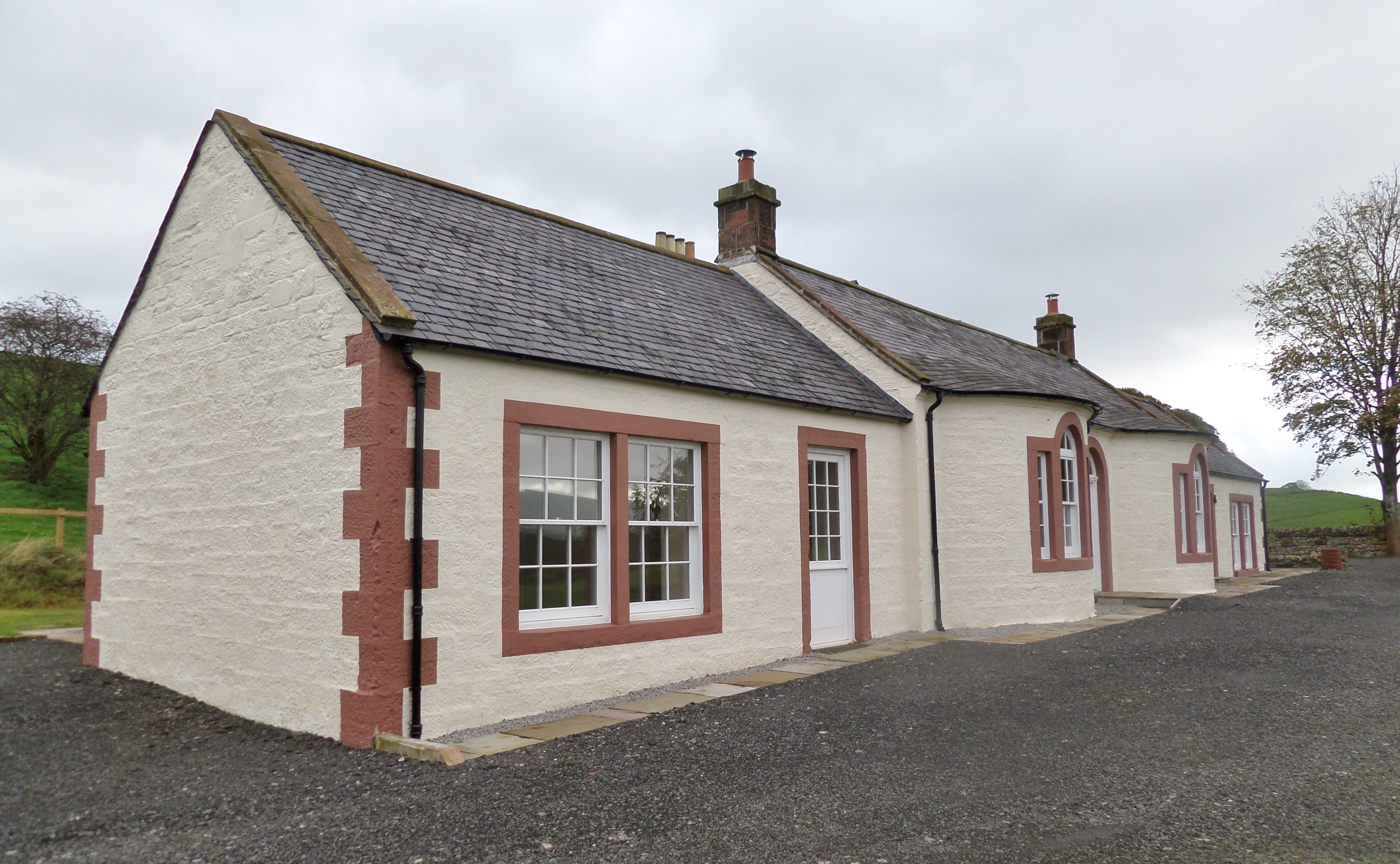 Rosebank Cottage, Dalgarnock, Dumfries & Galloway, Scotland. Known as Kirkbog Cottages for a time.